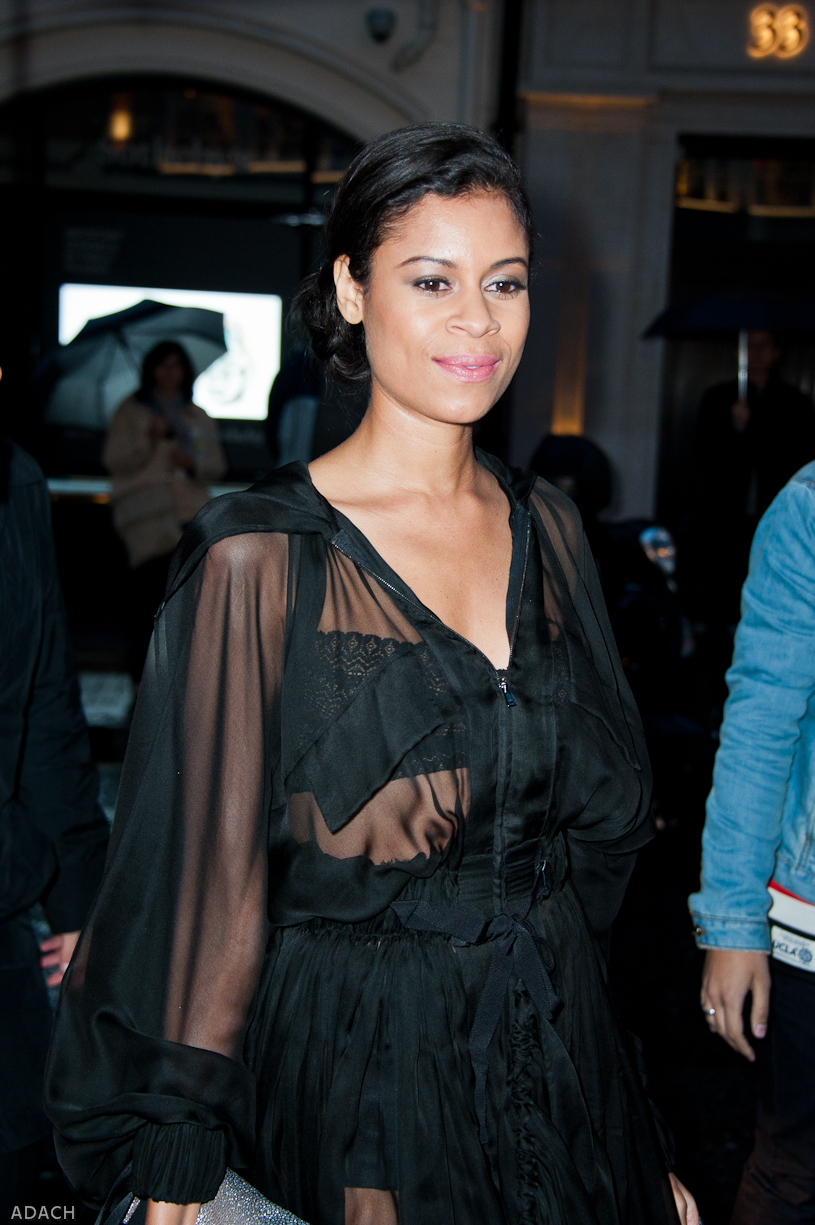 Aluna Francis at the Fendi store opening